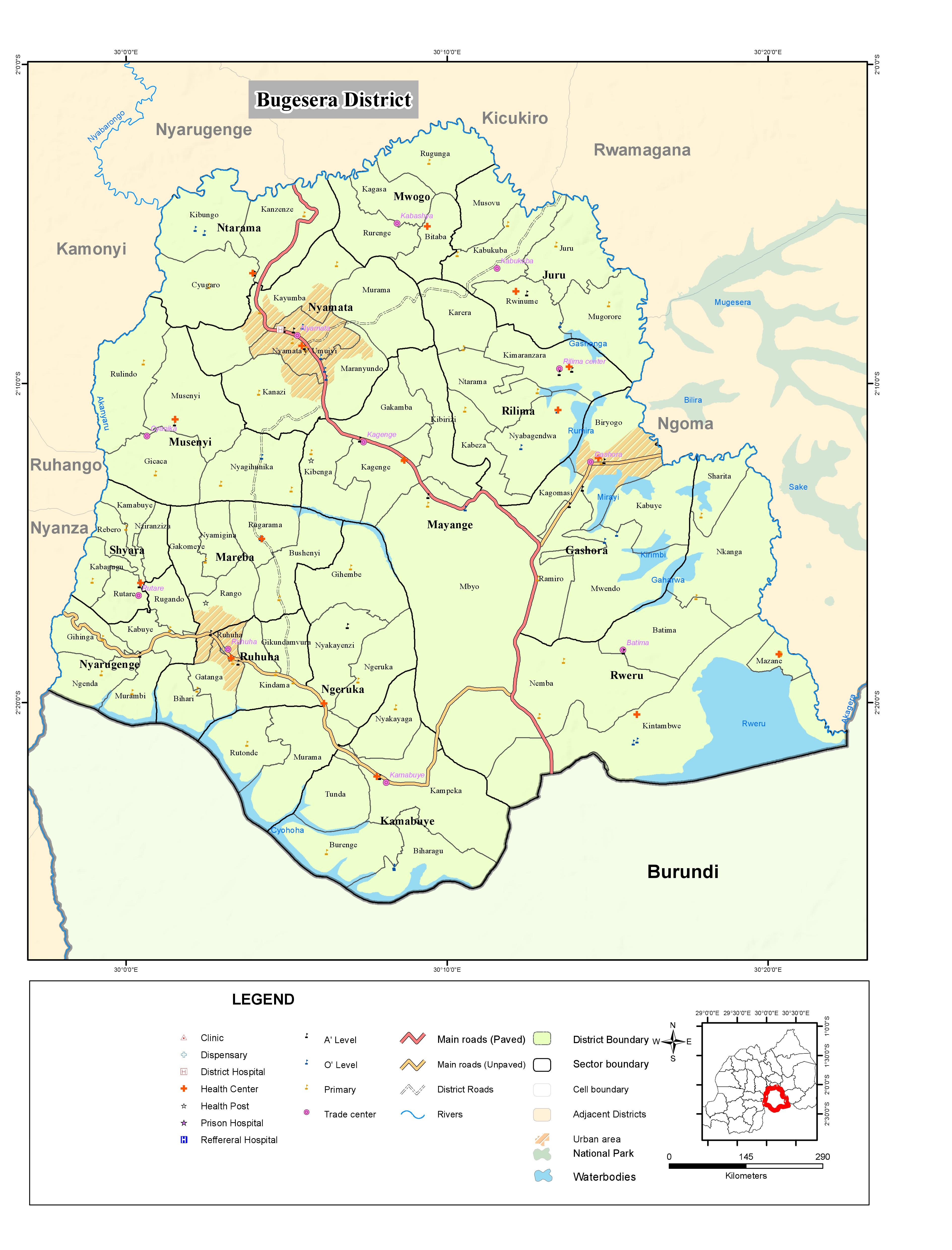 Map of Bugesera district Rwanda